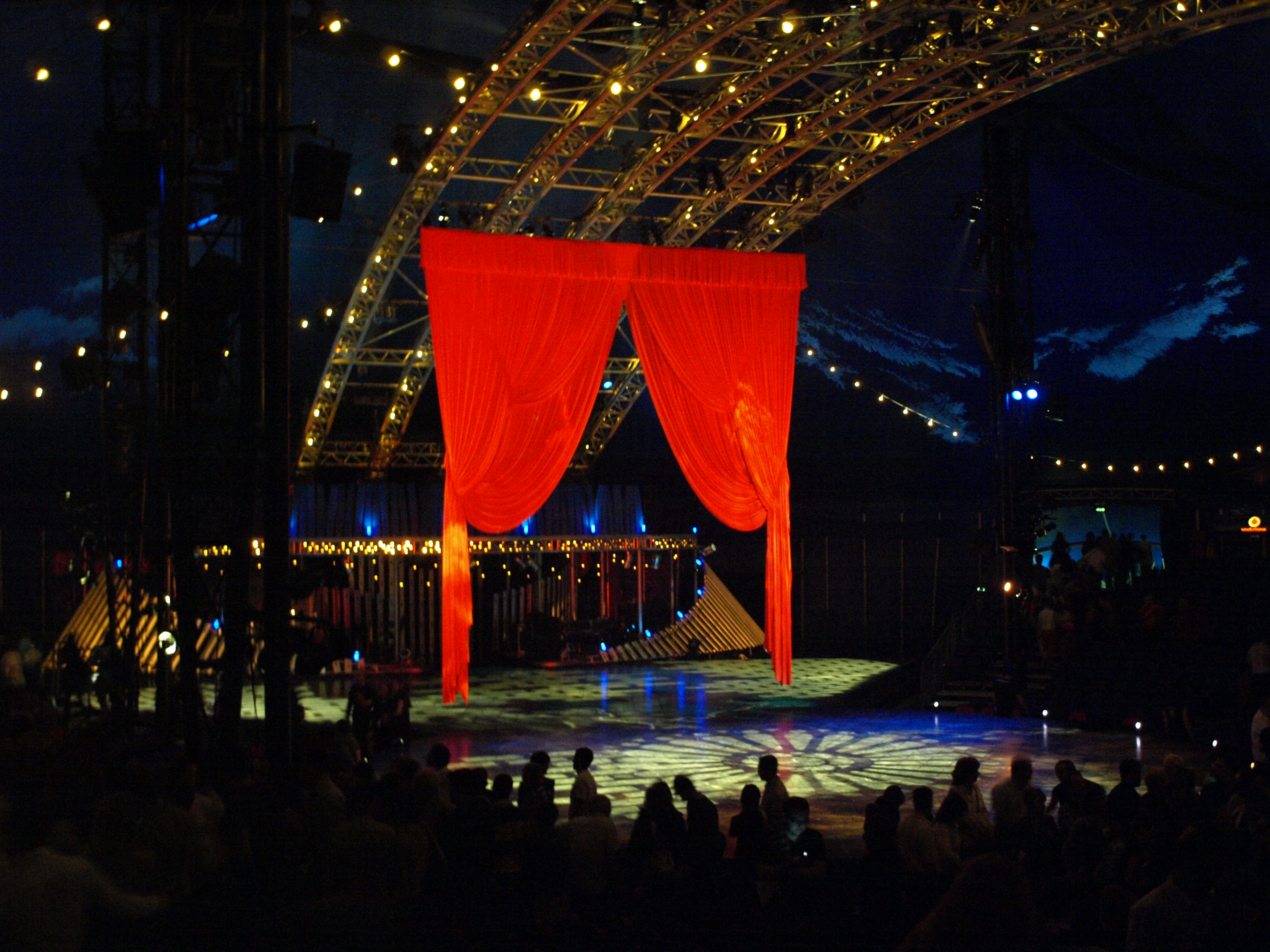 Cirque du Soleil´s Quidam Stage